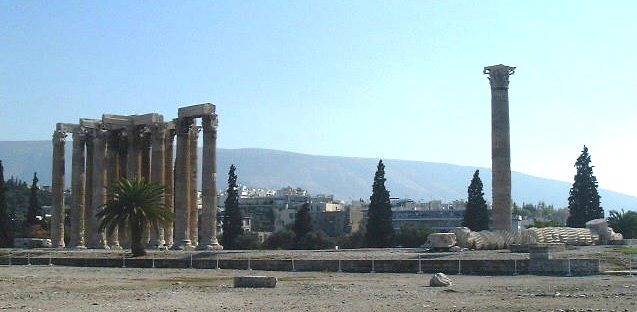 The Temple of Zeus in Athens. Taken December 2001.